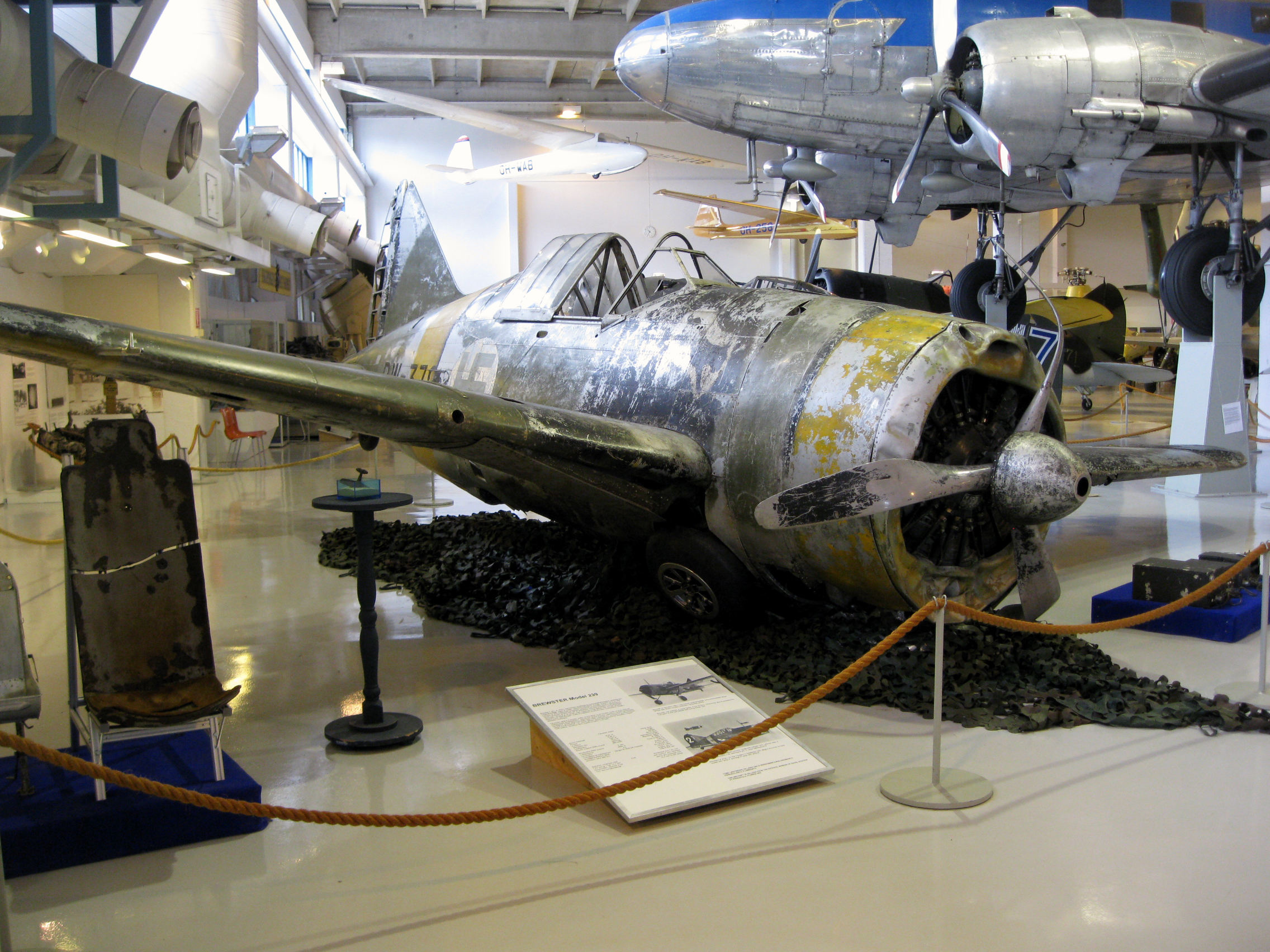 Brewster Model 239 (BW-372) in Aviation Museum of Central Finland.